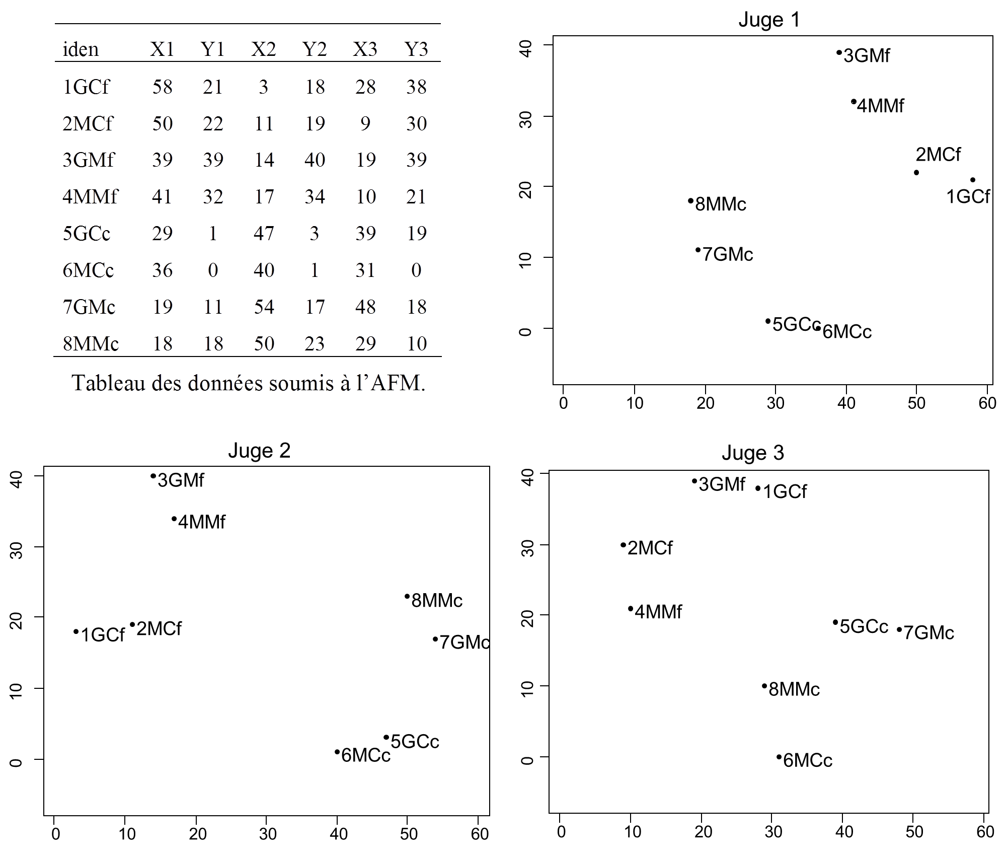 Figure 2 de l'article Napping